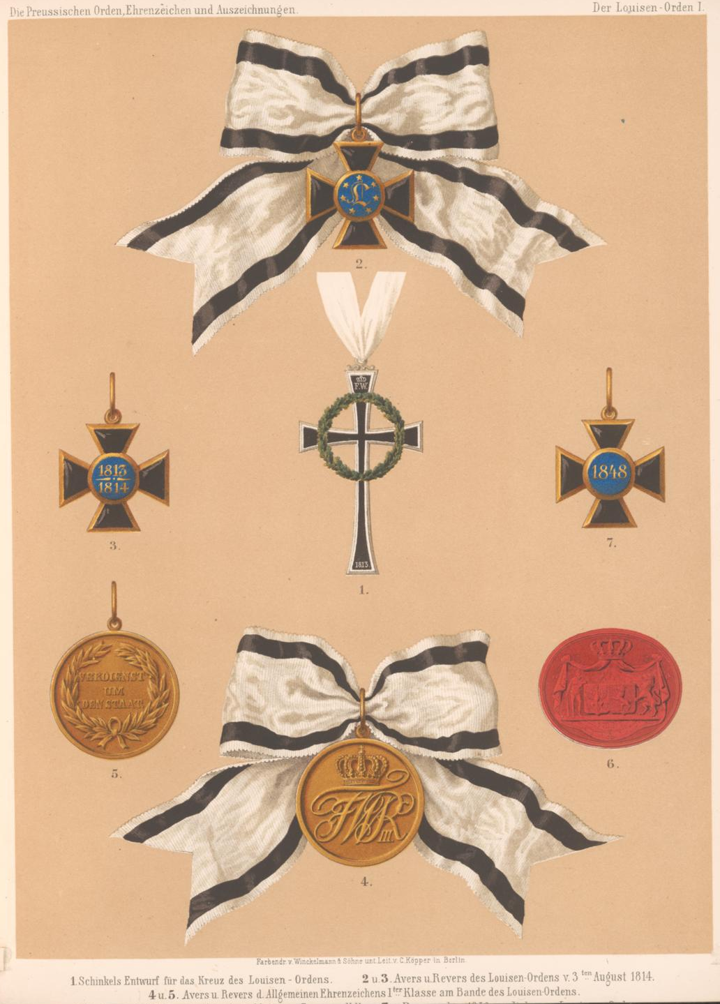 The Prussian Louise Order